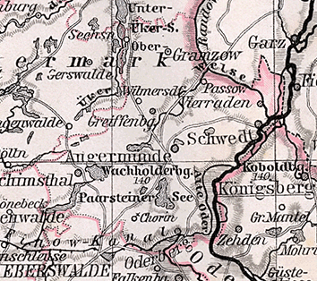 Detail from a map of Brandenburg.